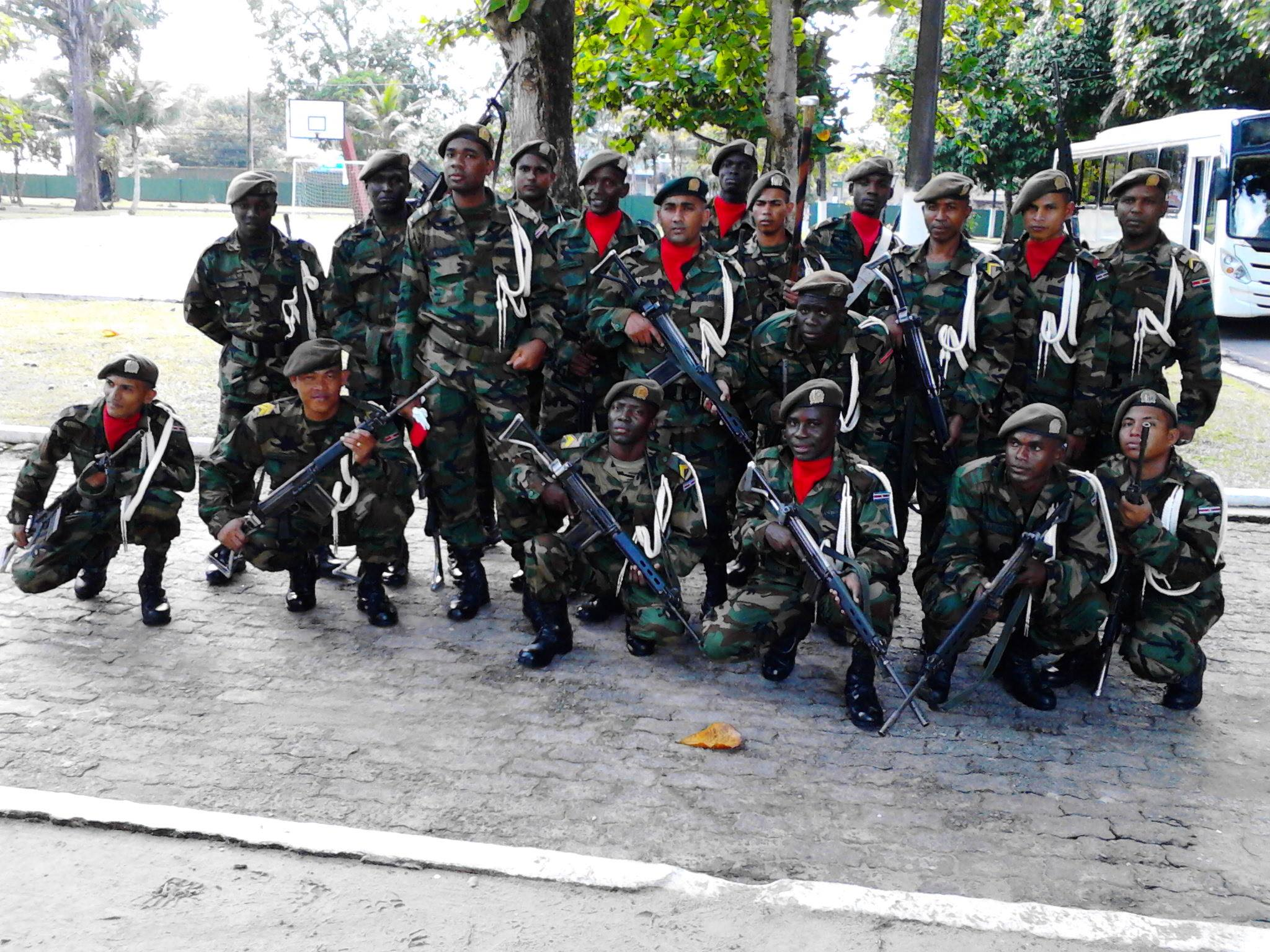 SNL SOLDIERS